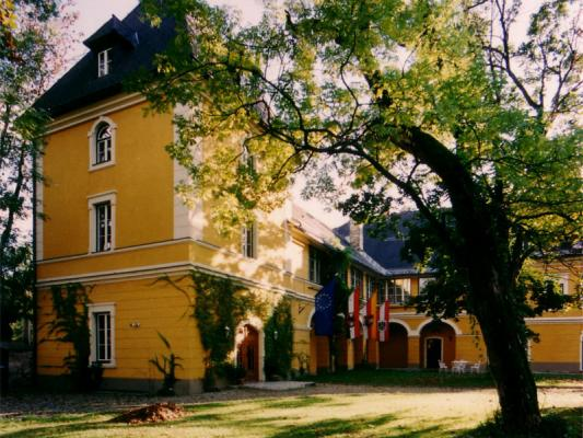 Frontview from the castle from a different angle.